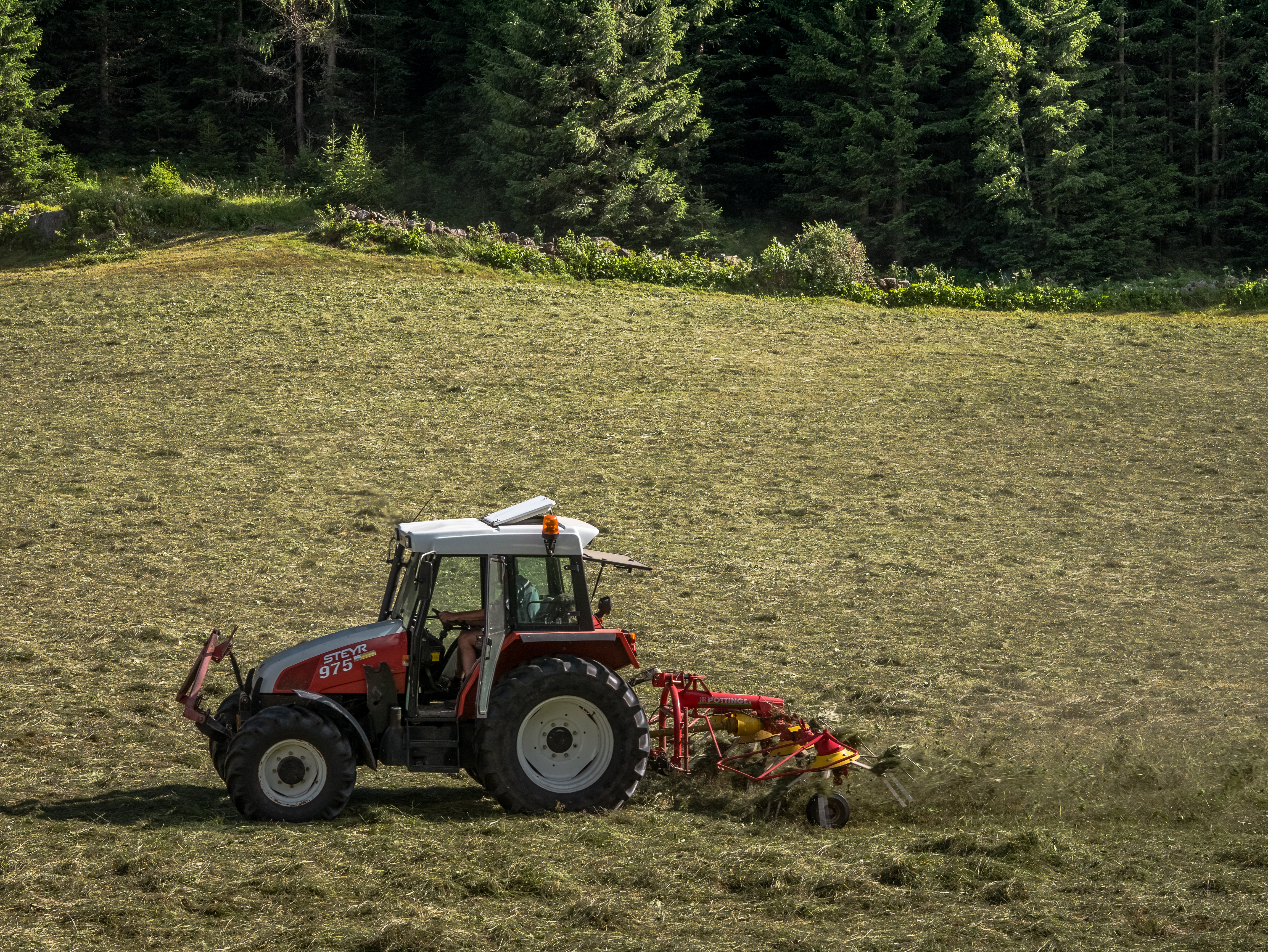 Hay harvest: a tractor (Steyr 975) turns hay. Galtür, Tyrol, Austria